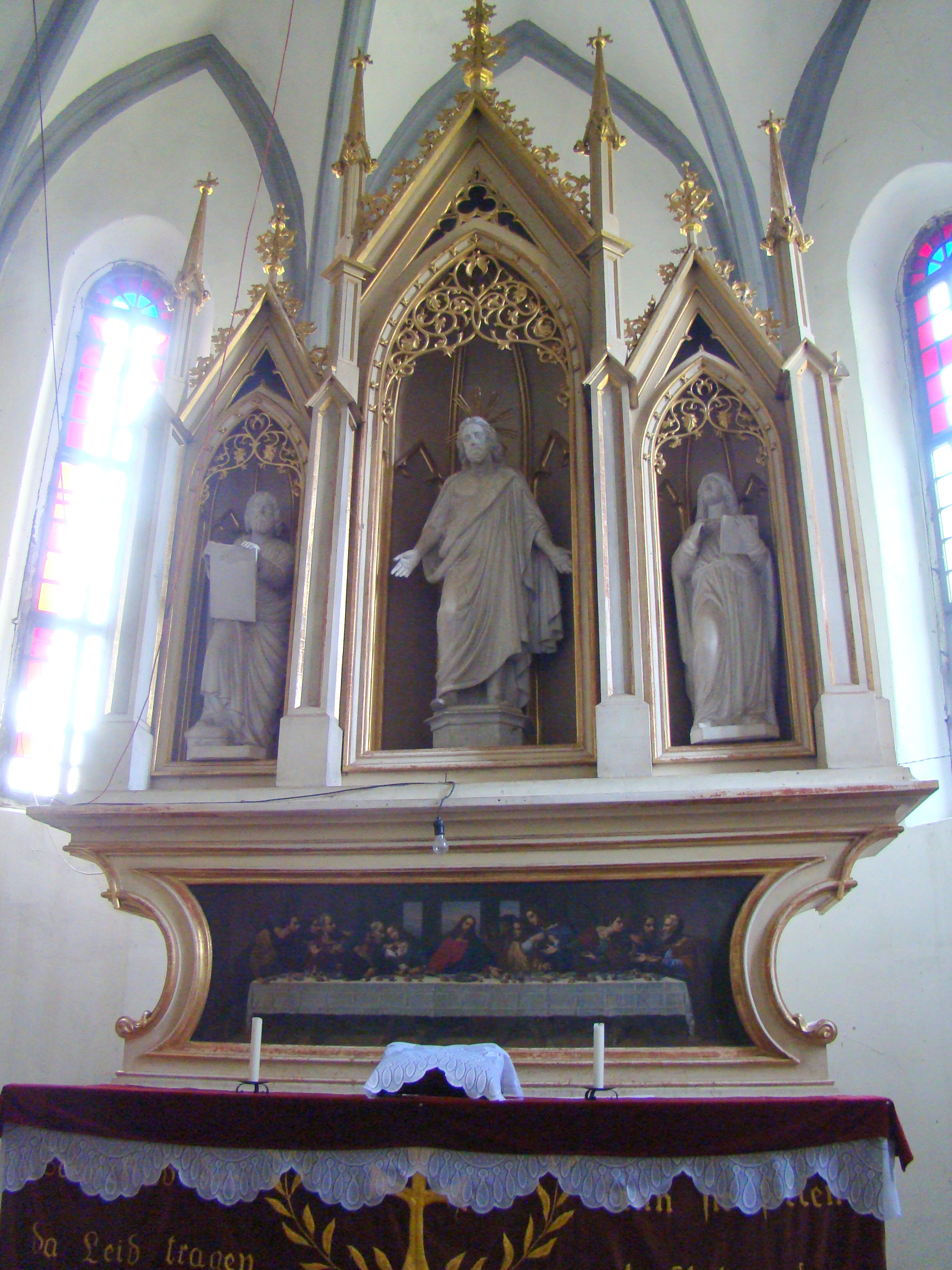 Lutheran church in Batoș, Mureş county, Romania